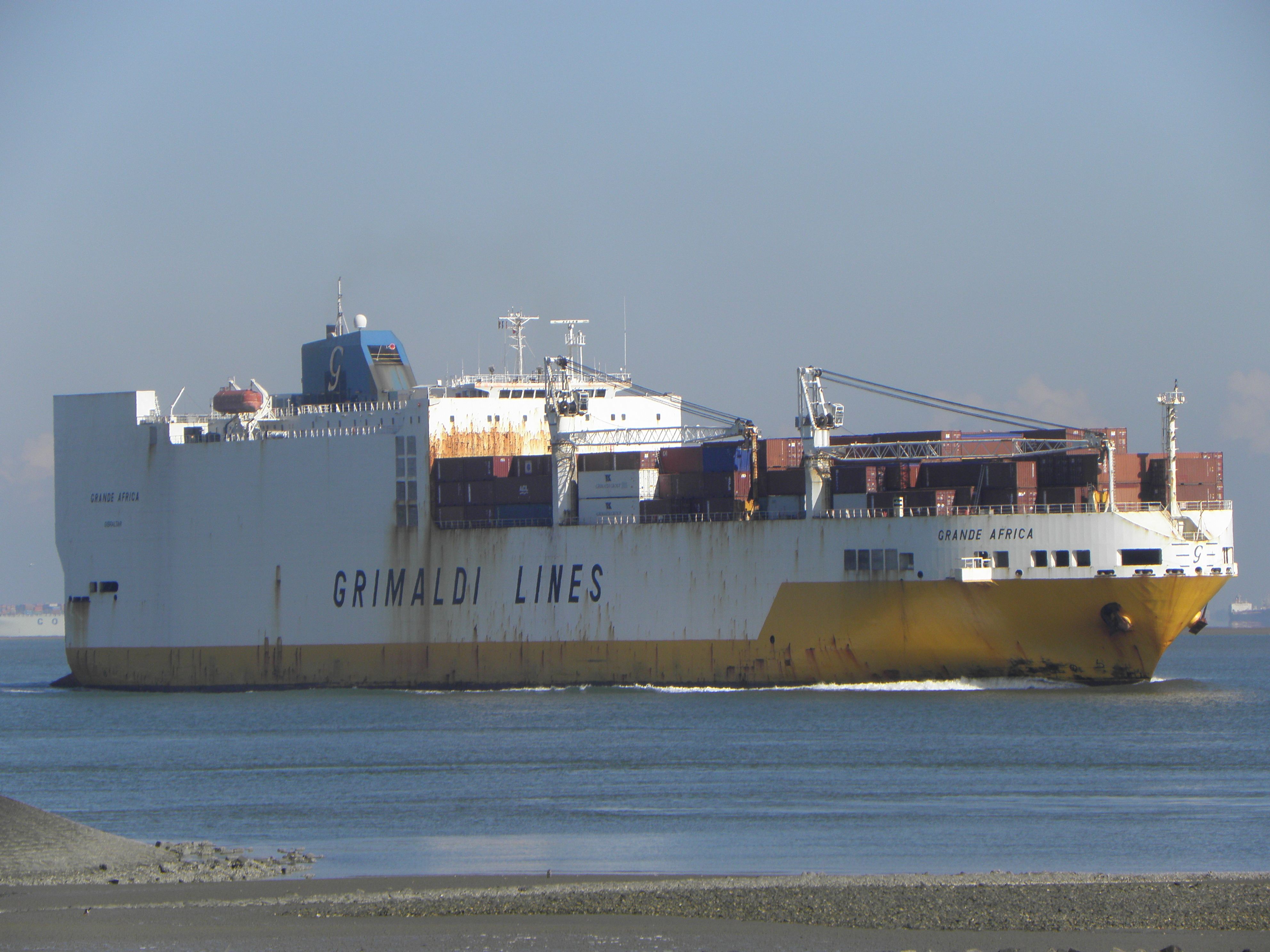 Grande africa I.M.O. number 9130949